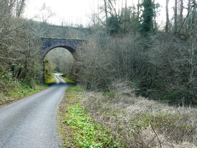 Former railway bridge The disused bridge on the Coleford to Monmouth line, near Redbrook.